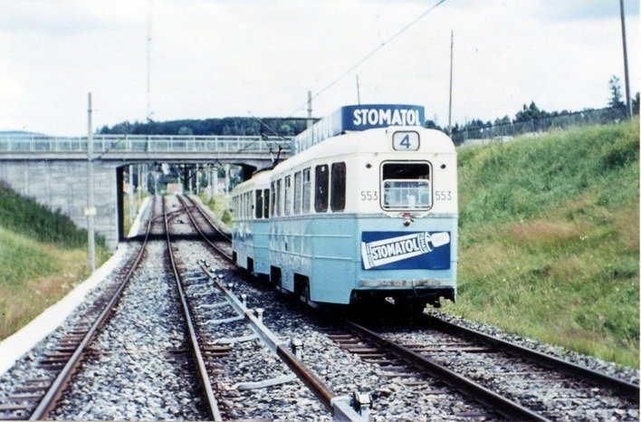 SM53 trailer 553 on the Lambertseter Line of the Oslo Metro, between Manglerud and Høyenhall.